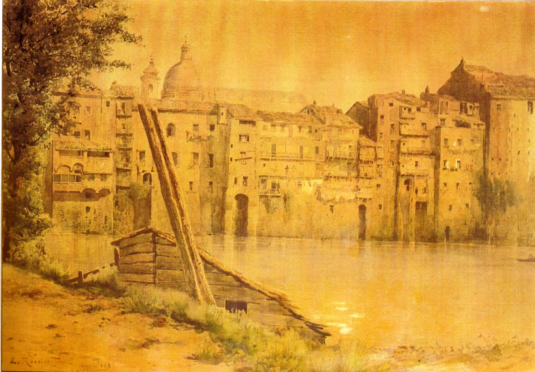 Houses in the Tor di Nona area of Rome (Rione Ponte)